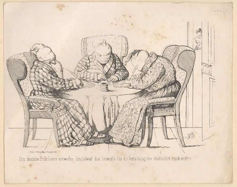 Caricature: Three German Professors designing the draft of the draft of the staute for the german imperial army. 1848